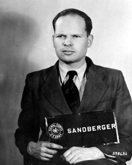 Martin Sandberger, former commanding officer of sonderkommando 1a of 'Einsatzgruppe A'